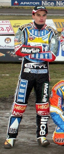 Adrian Miedziński before one of 2007 matches